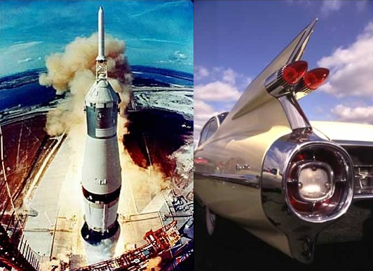 Wings Cars Rockets